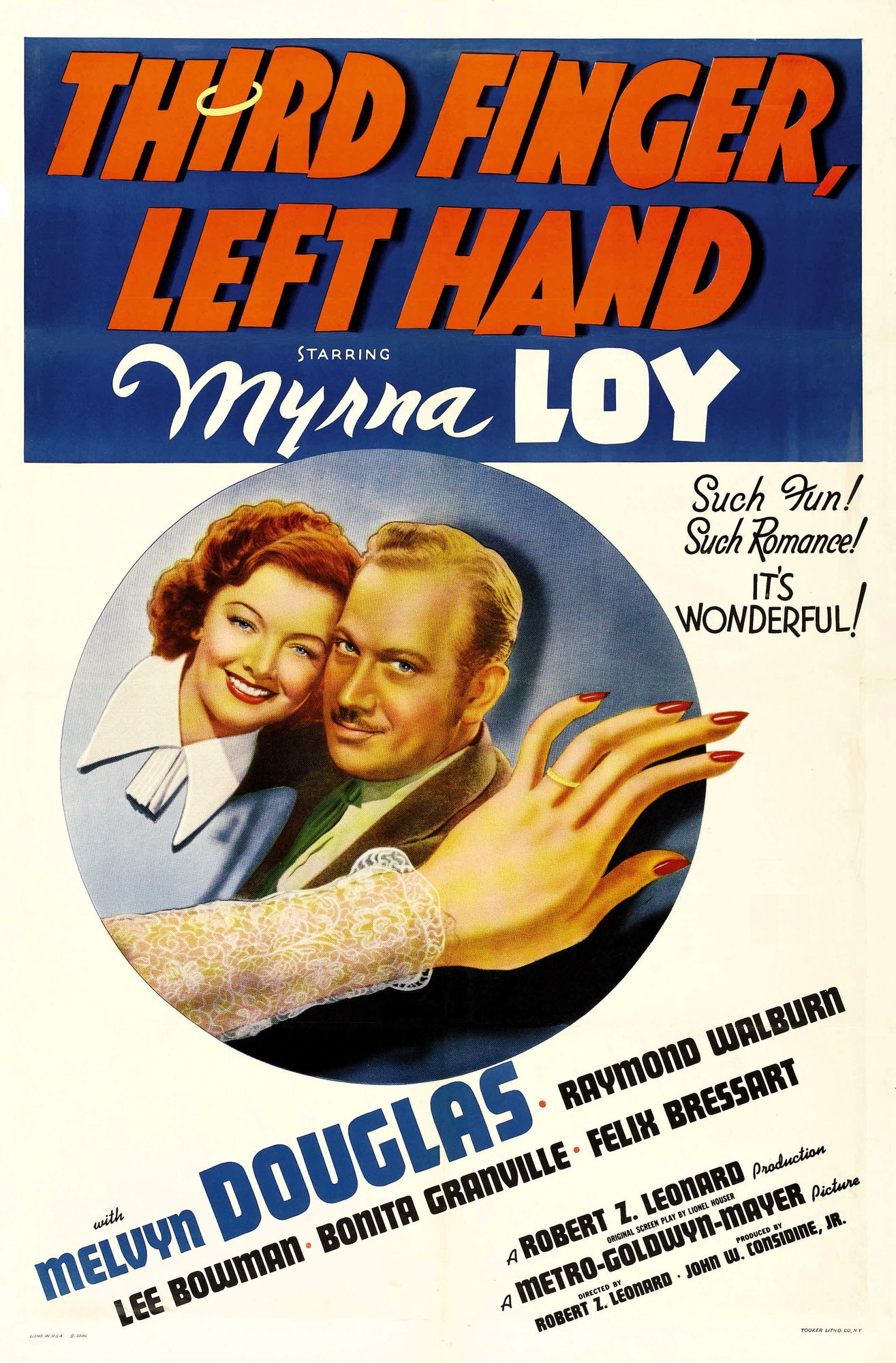 Poster for the 1940 film Third Finger, Left Hand.. The item has no copyright markings on it as can be seen in the links above. At bottom left is Litho in USA and {looks like} #3386. At bottom right is Tooker Litho Co. NY-they printed the poster.